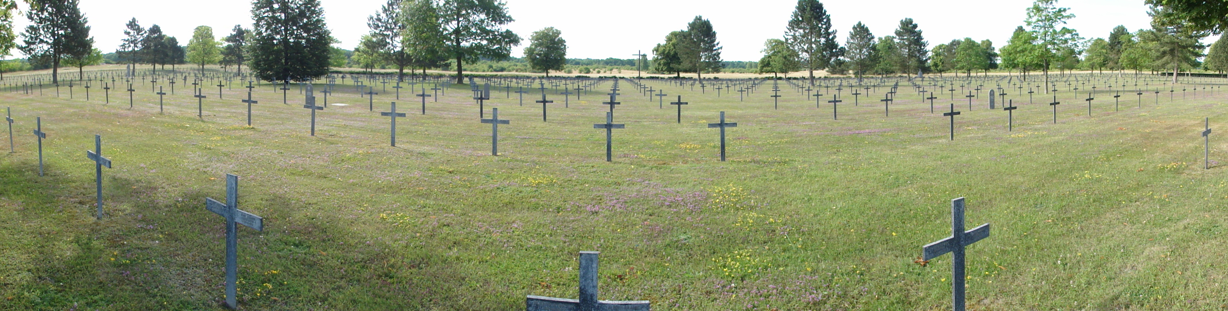 Cimetière militaire allemand de Sissonne